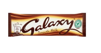 The current packaging used by Galaxy.